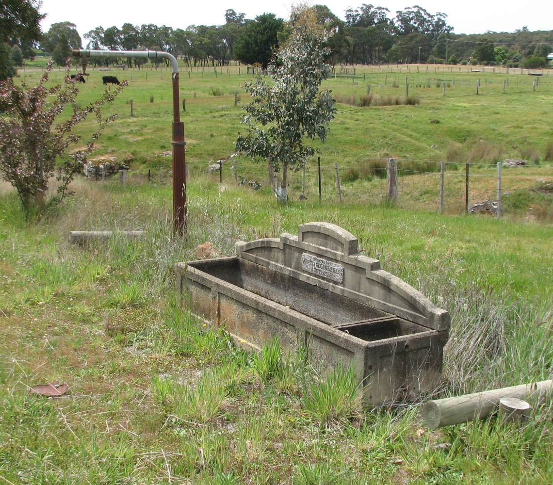 Bills horse trough in Newtown, Victoria (Golden Plains Shire) (Victoria, Australia)